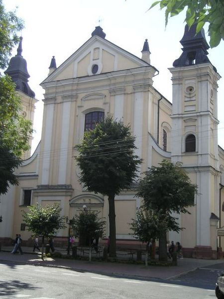 Trinity church in Janów Podlaski, Poland